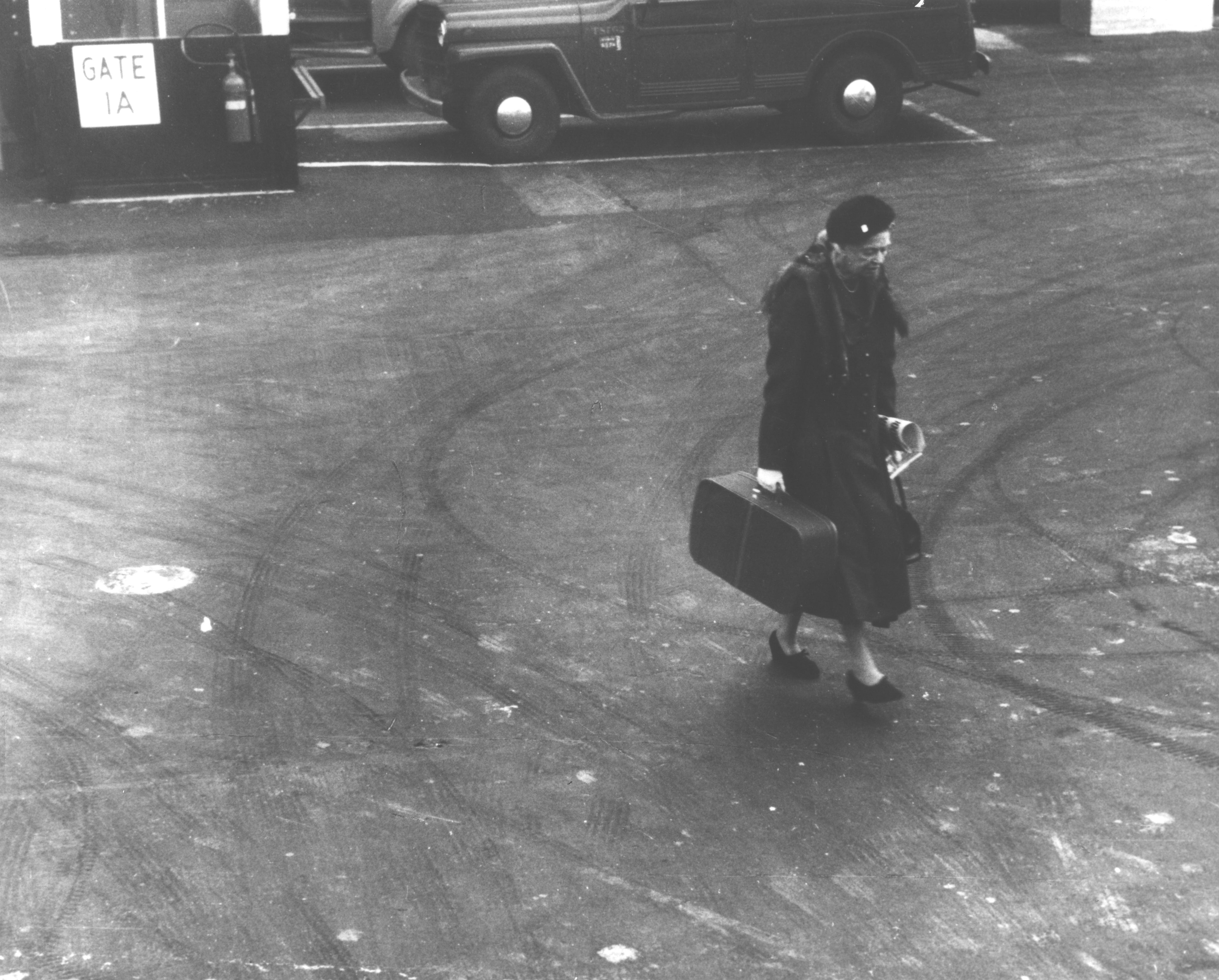 Eleanor Roosevelt carrying her suitcase at LaGuardia Airport, New York, New York. Lawrence W. Jordan photo. 1960.